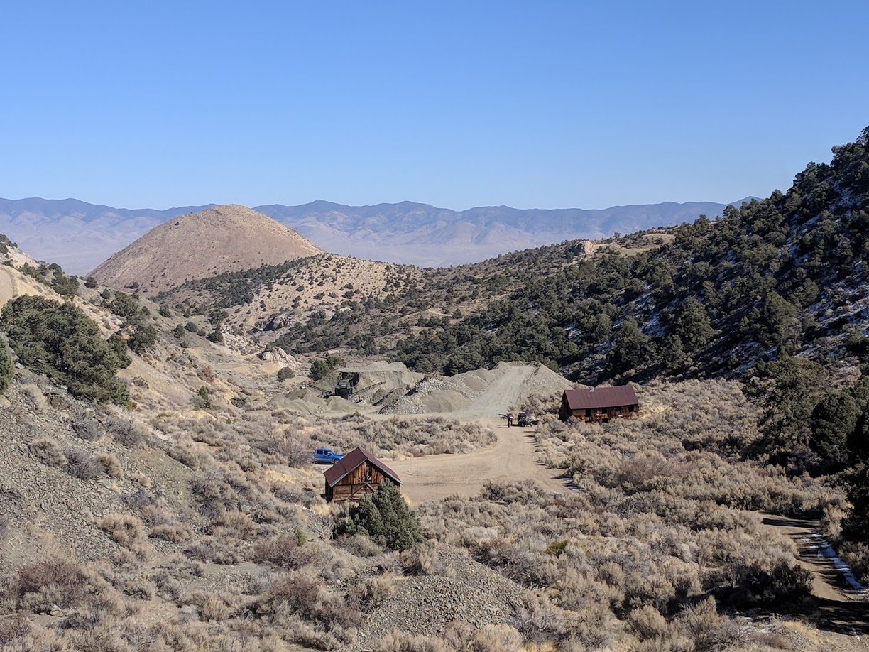 Taken from a nearby hill in Pine Grove, Nevada.